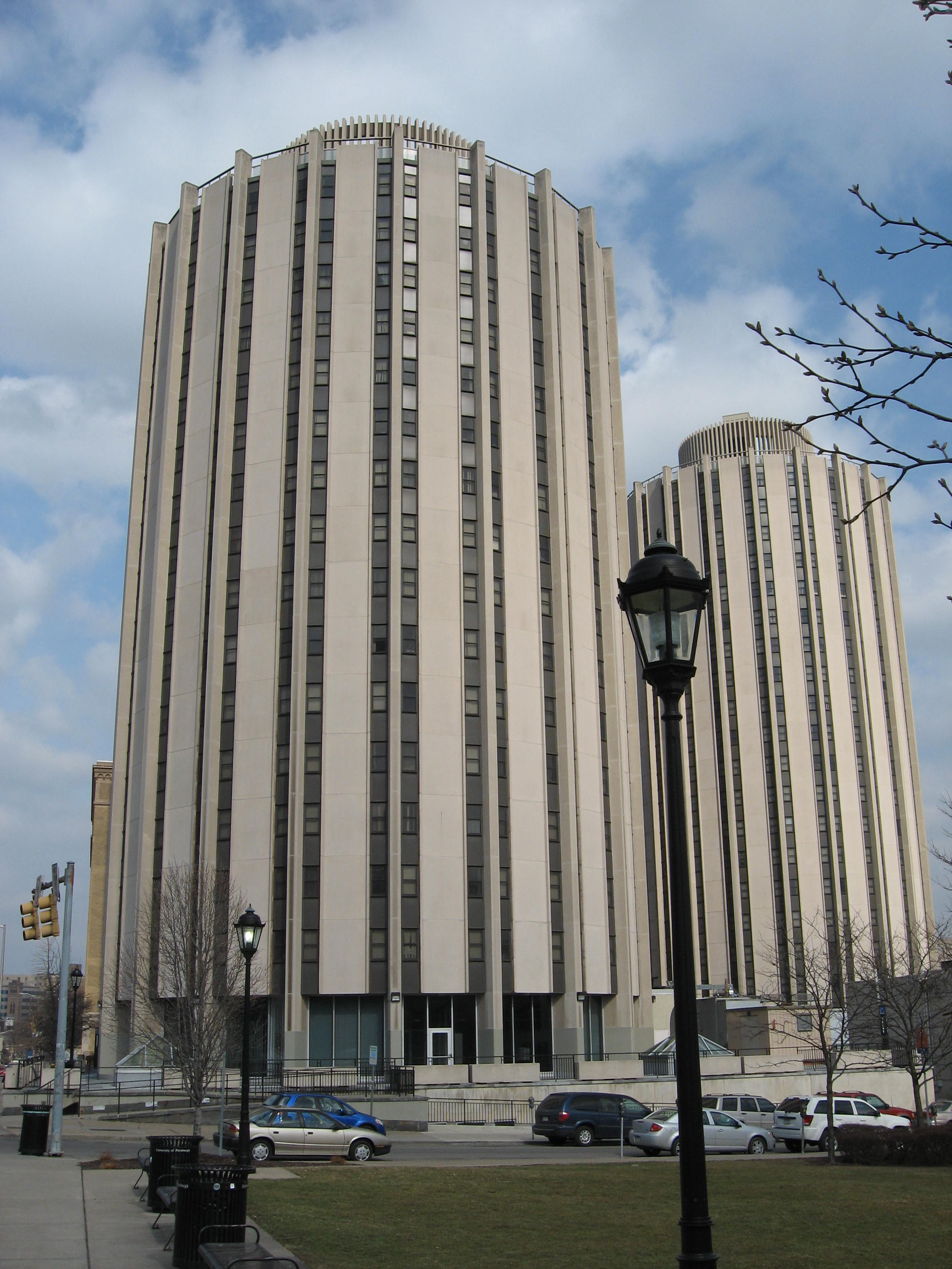 Litchfield Towers at University of Pittsburgh 40°26′33″N 79°57′23.8″W / 40.4425°N 79.956611°W